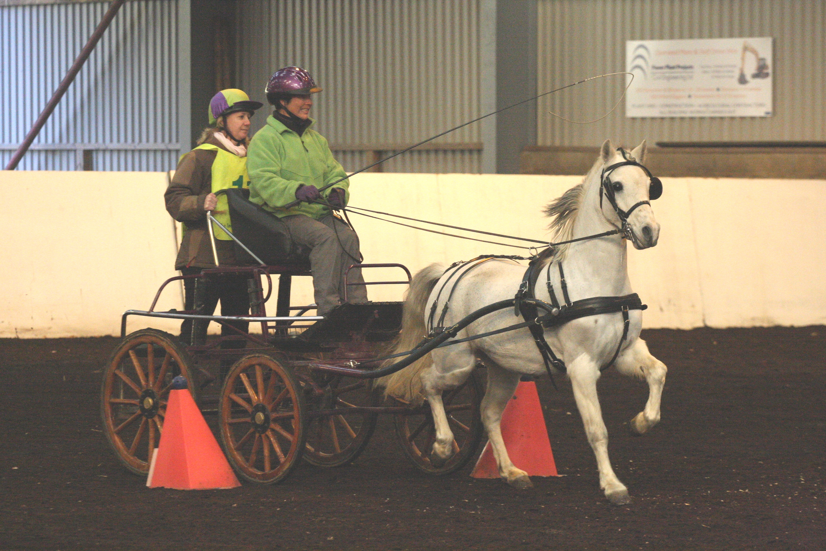 Indoor driving (UK) rules alow the backstepper to stand or sit for all phases.